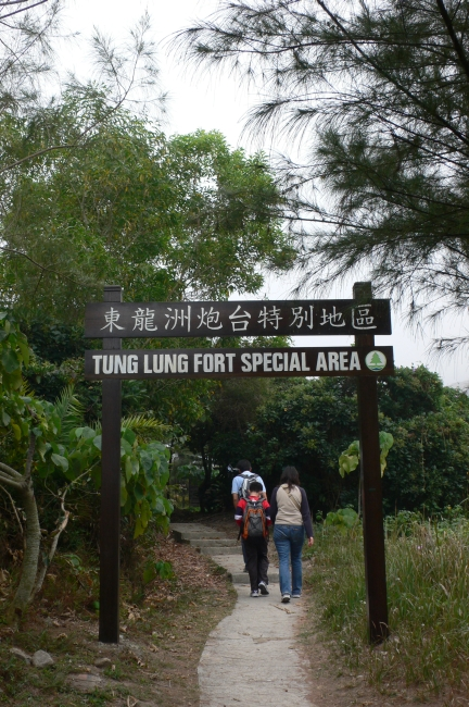 Tung Lung Fort Special Area, Hong Kong